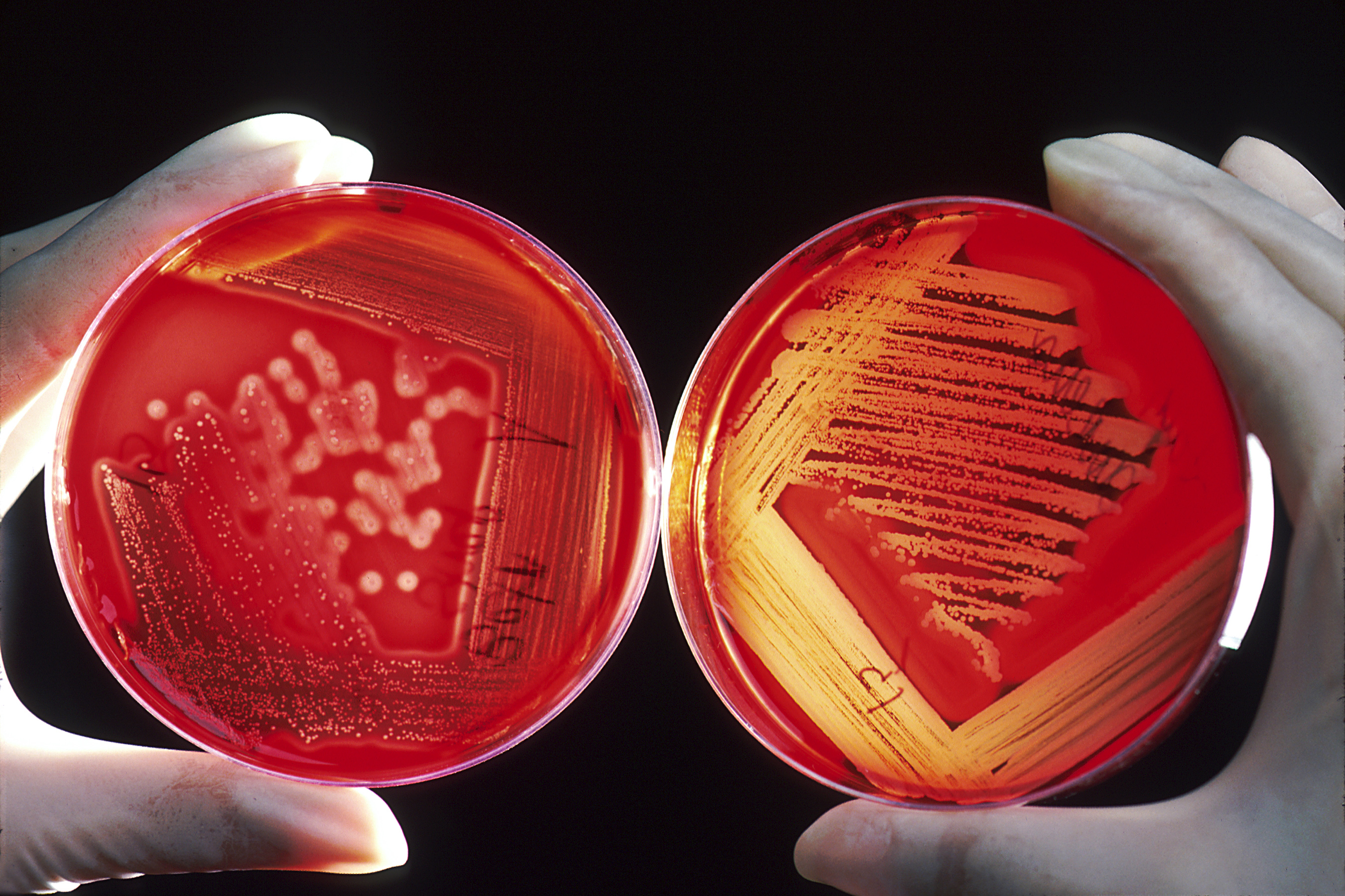 Title Agar Plate Description Red blood cells on an agar plate are used to diagnose infection. The plate on the left shows a positive staphyloccus infection. The plate on the right shows a positive streptococcus infection and with the halo effect shows specifically a beta-hemolytic group A. Both plates are being held by a gloved technicians hands. These infections can occur in patients on chemotherapy. Topics/Categories Science and Technology -- Laboratory Techniques/Equipment Type Color, Photo Source Clinical Center Communications